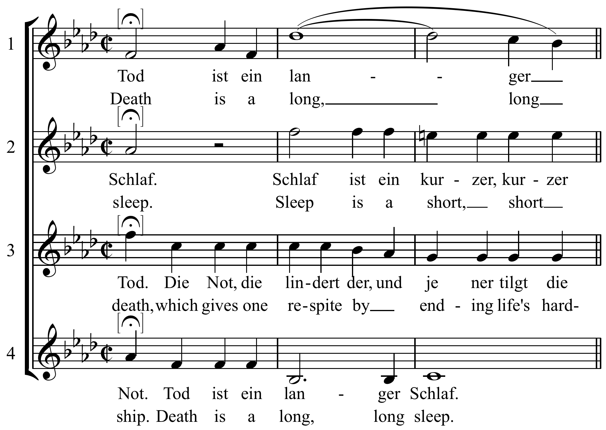 "Tod und Schlaf" ("Death is a Long Sleep"), four voice round by Haydn (1732 – 1809). Translation by uploader.